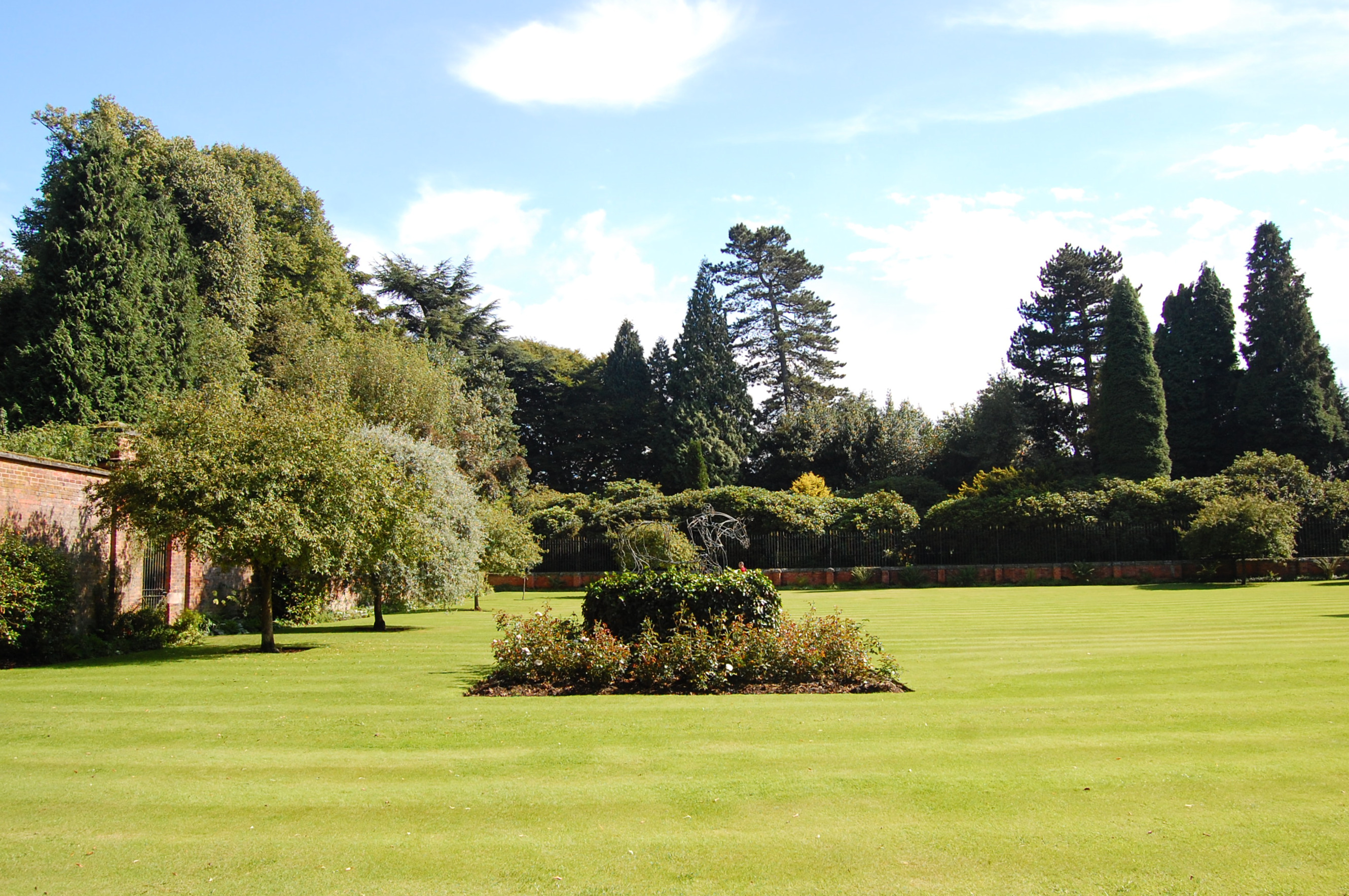 The Walled Garden, Hare Hill, Data from Geograph: Description: The garden and parkland of Hare Hill (though not the house) is owned by the National Trust. ICBM: 53.2874792017, -2.18791306013 Location: (about 2 km from) near to Mottram st Andrew, Cheshire, Great Britain.